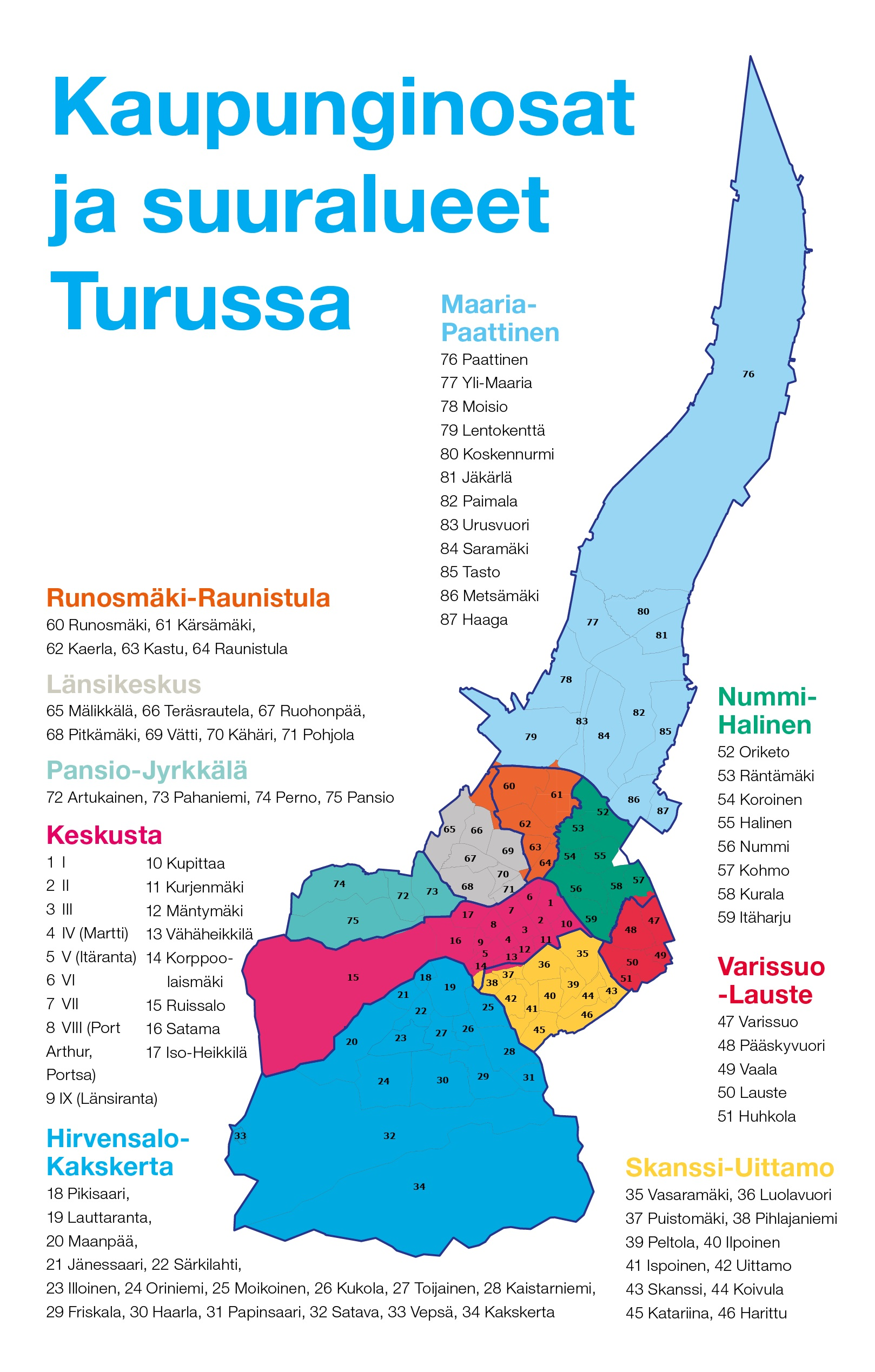 Districts of Turku (city in Finland)